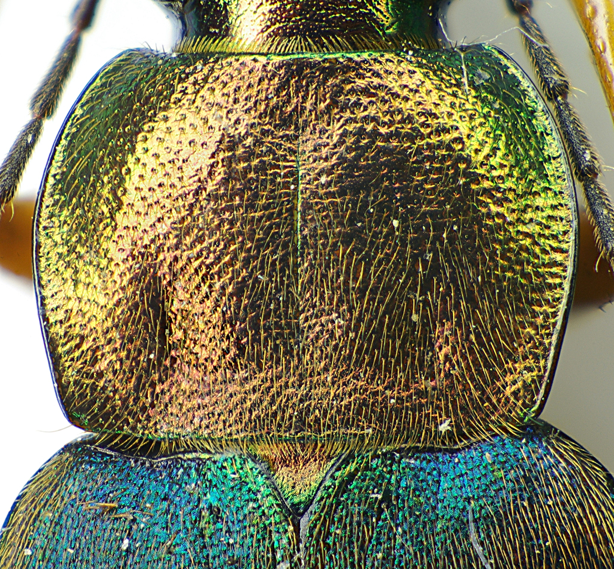 Chlaeniellus nigricornis from Hungary, pronotum